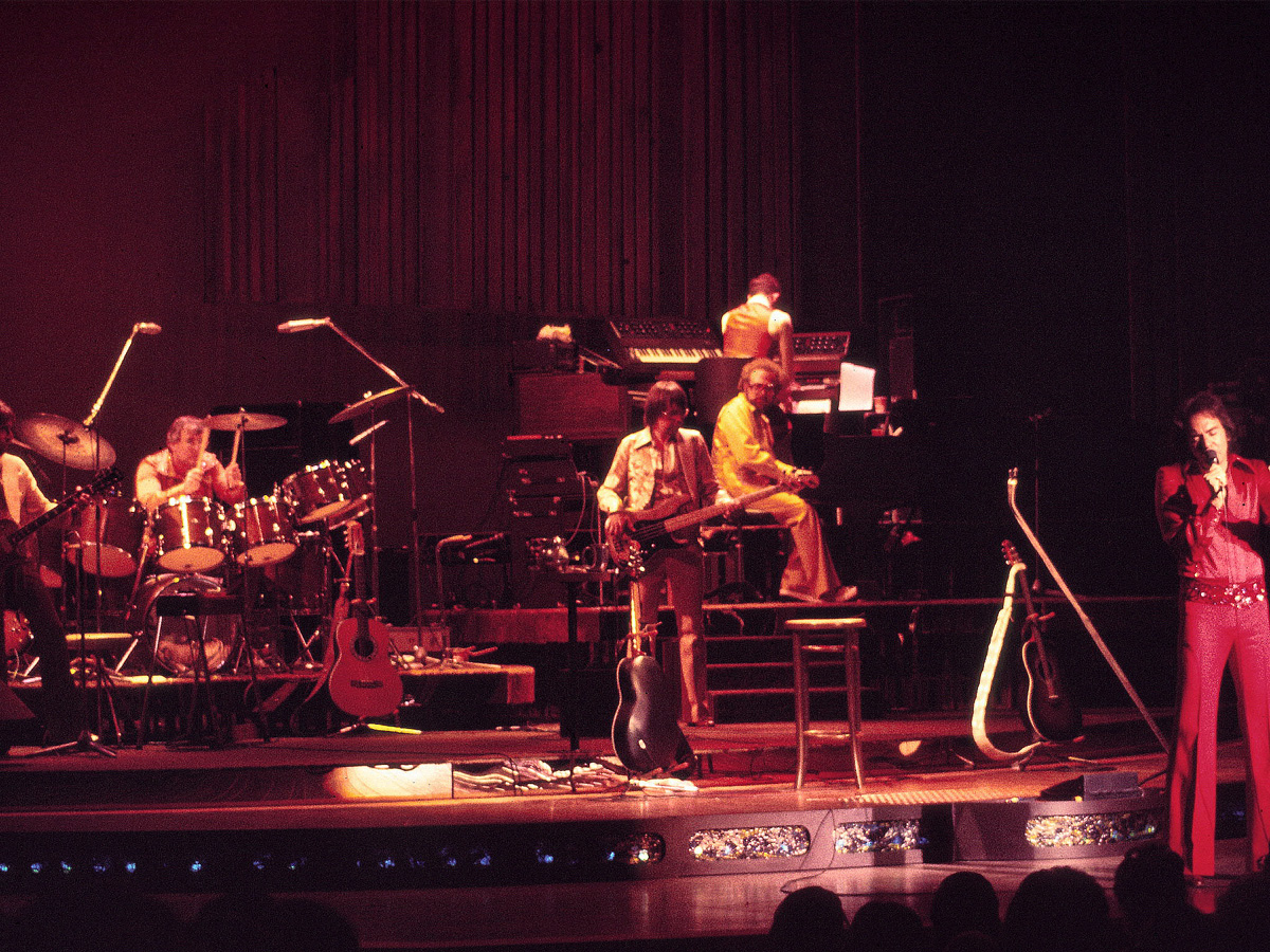 Opening Night at the Aladdin Theater for the Performing Arts Neil Diamond Concert